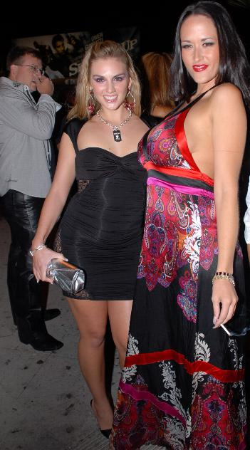 Brianna Love, Carmella Bing at Wicked Pictures party, the House of Blues on Sunset Blvd, September 19, 2007.